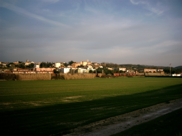 General view of Collesalvetti (Livorno, Tuscany, Italy)